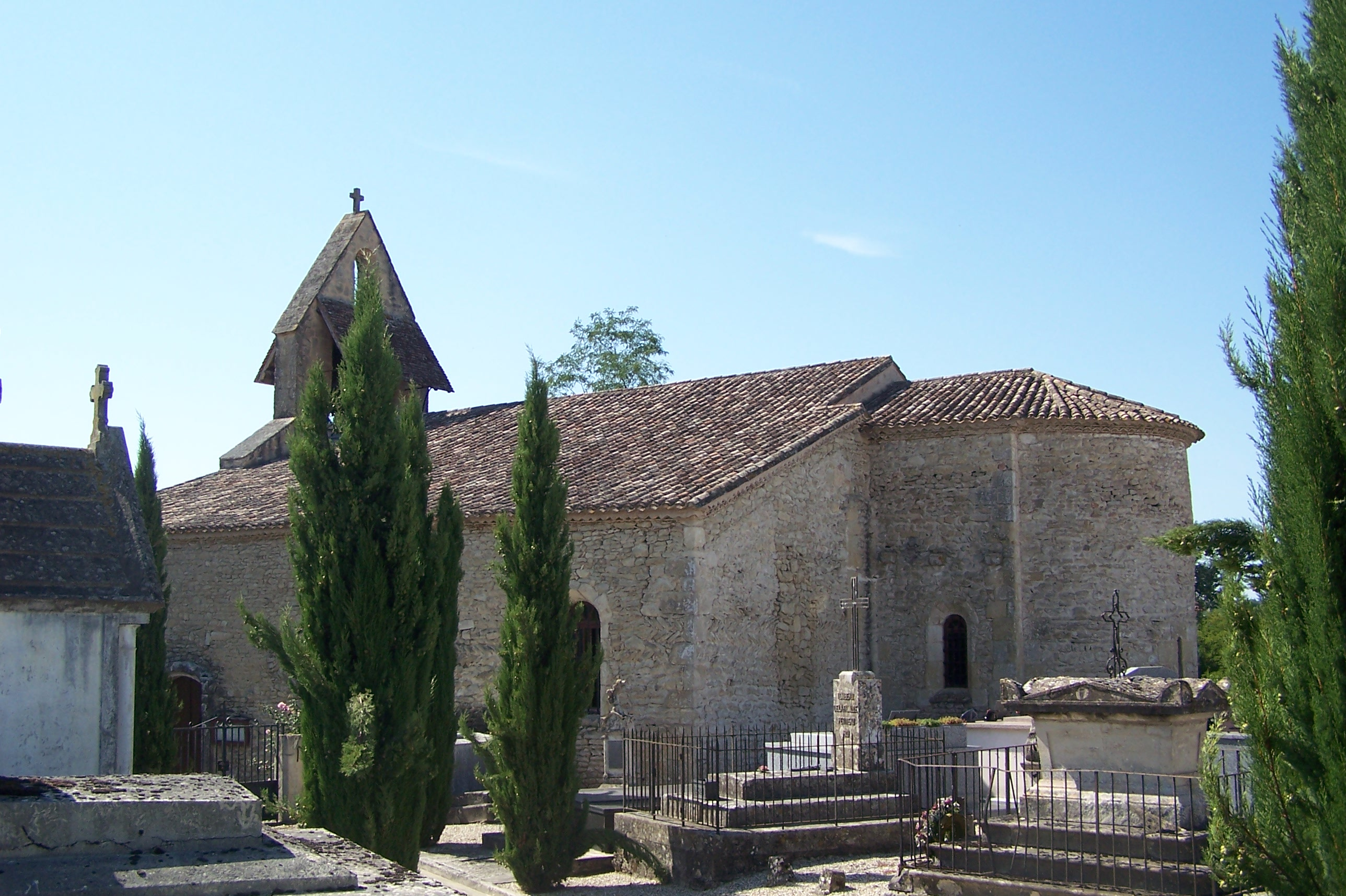 Church Saint-Vincent of Loubens (Gironde, France)